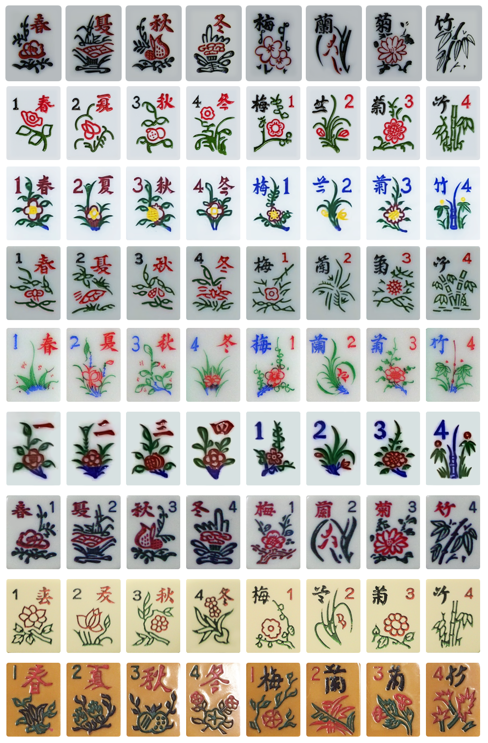 Flower tiles of mahjong.